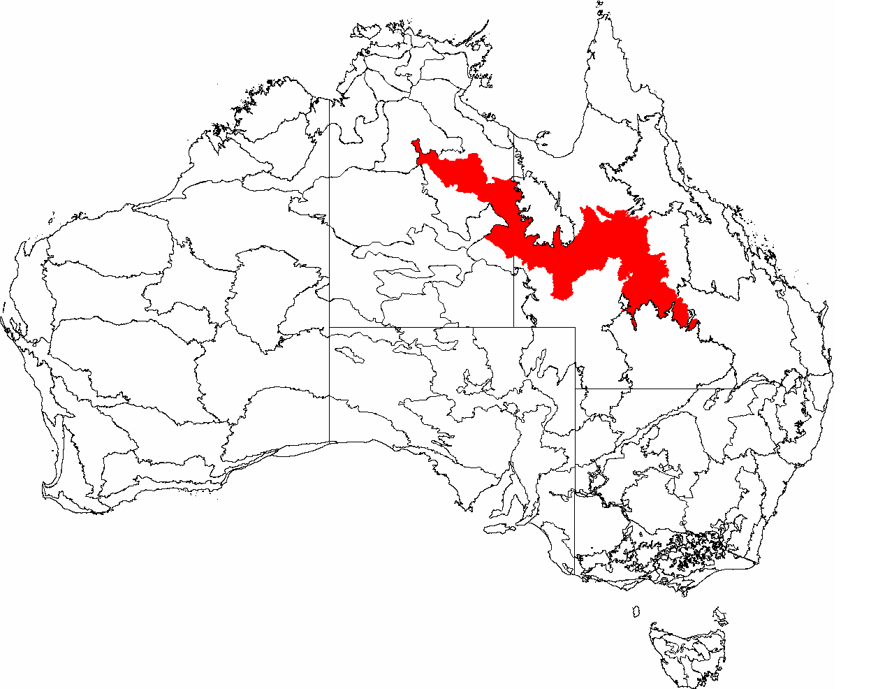 This is a map of the Interim Biogeographic Regionalisation of Australia (IBRA), with state boundaries overlaid. The Mitchell Grass Downs region is shown in red.